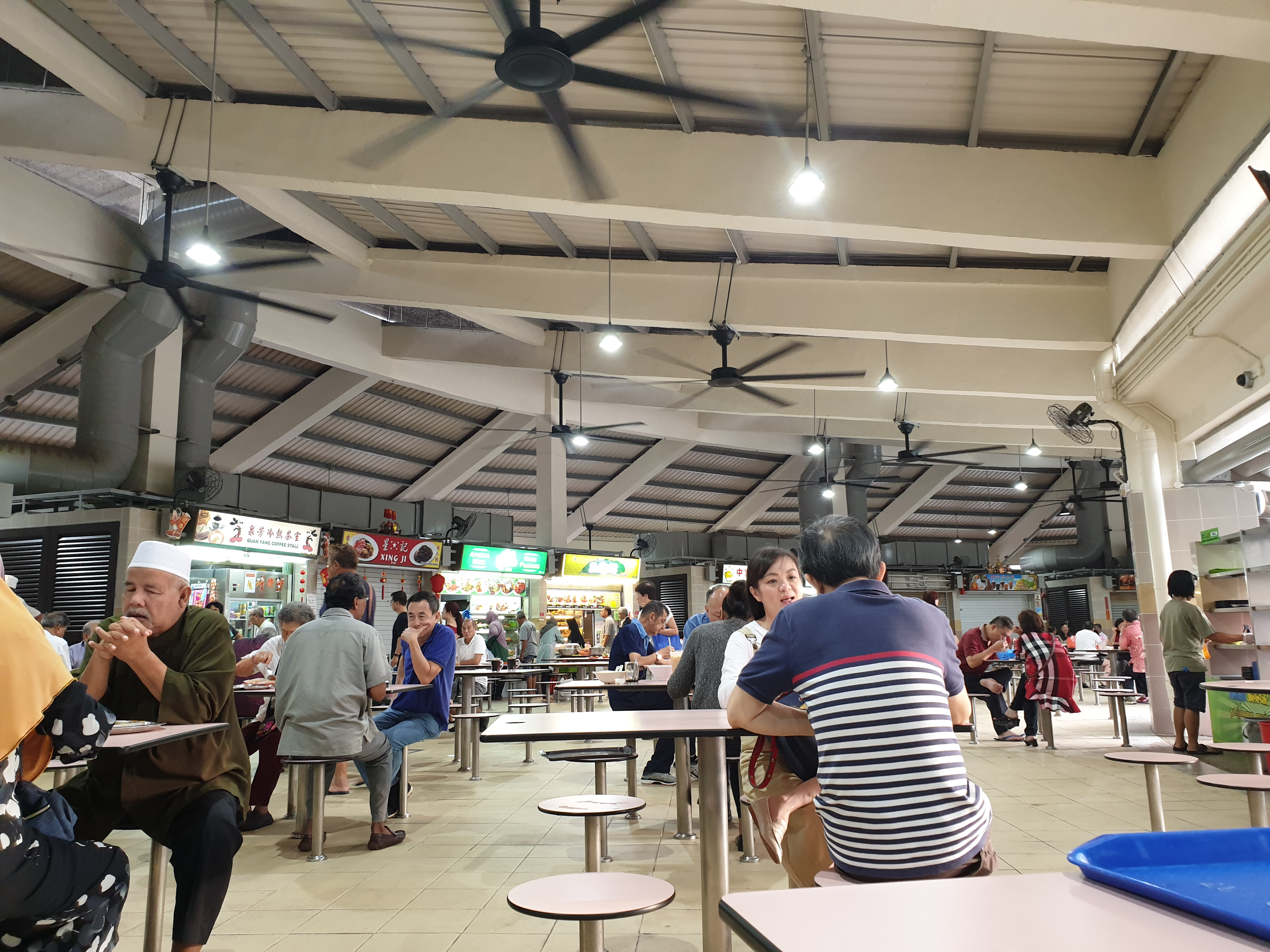 This file shows a typical hawker center in Singapore in the morning